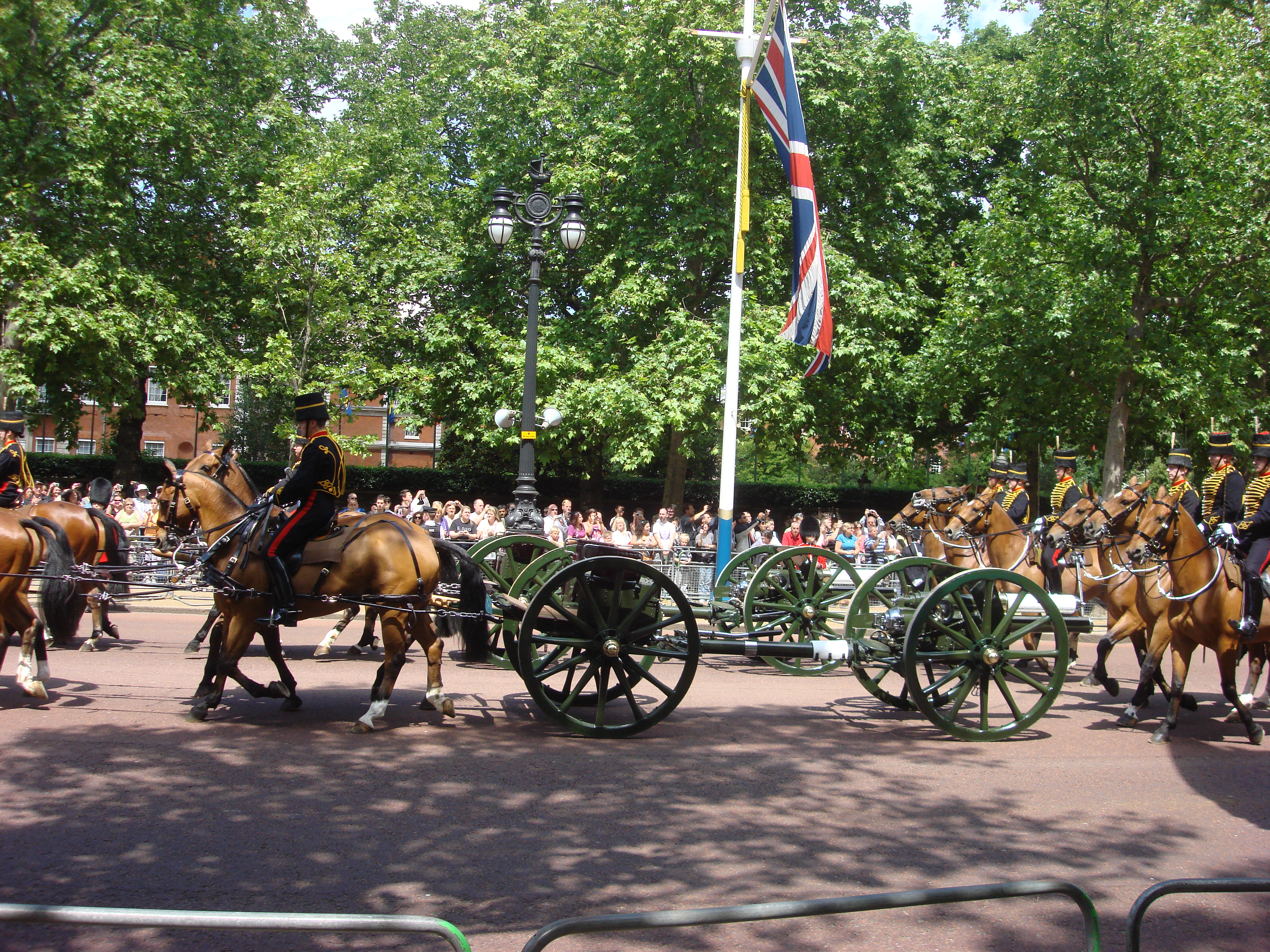 Trooping the Colour 2009